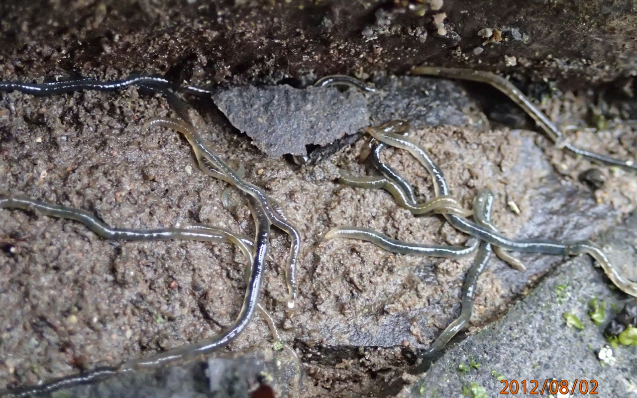 Enchytraeids